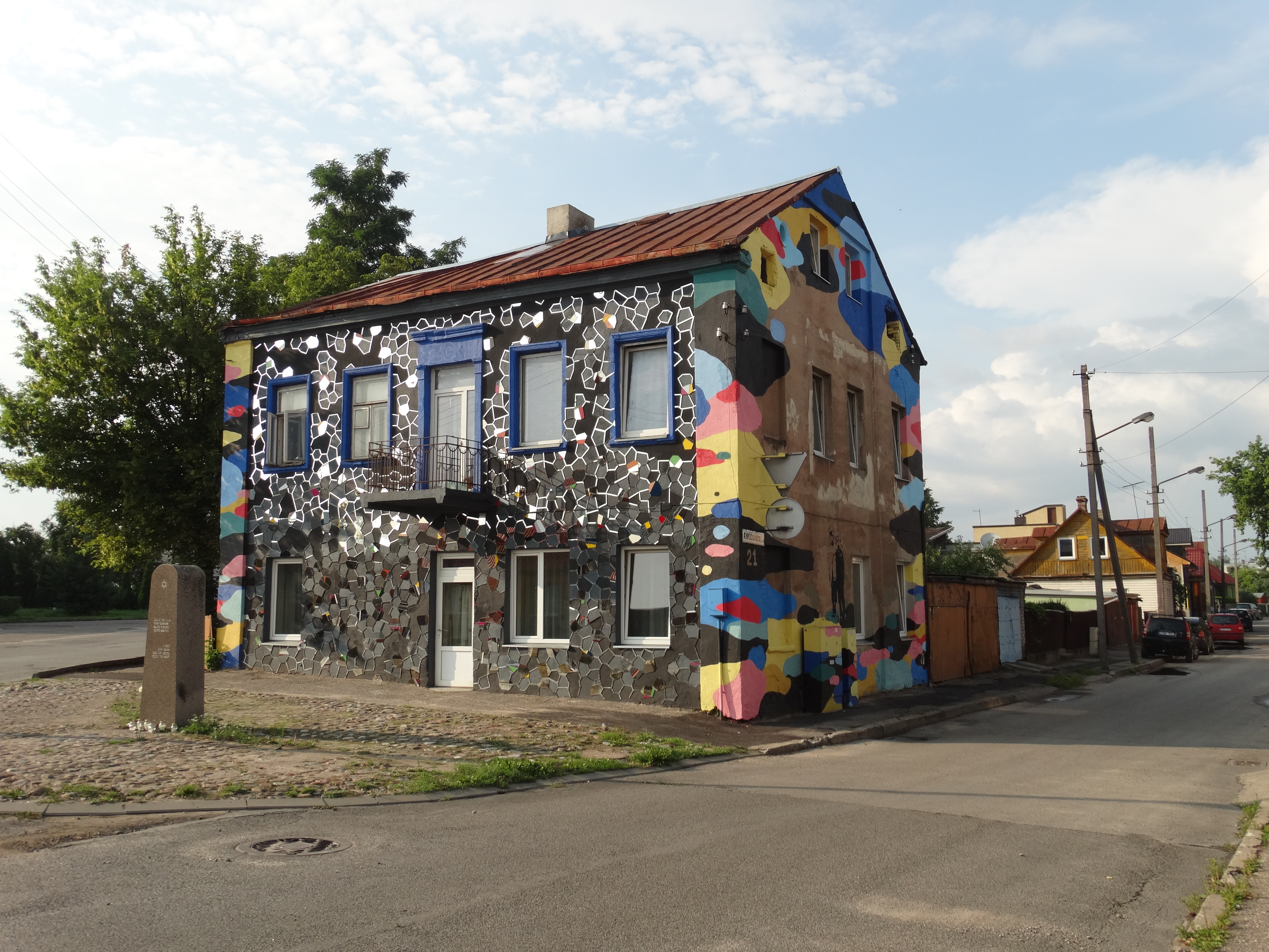 Vilijampolė, house near the memorial obelisk to Jewish ghetto, Kaunas, Lithuania